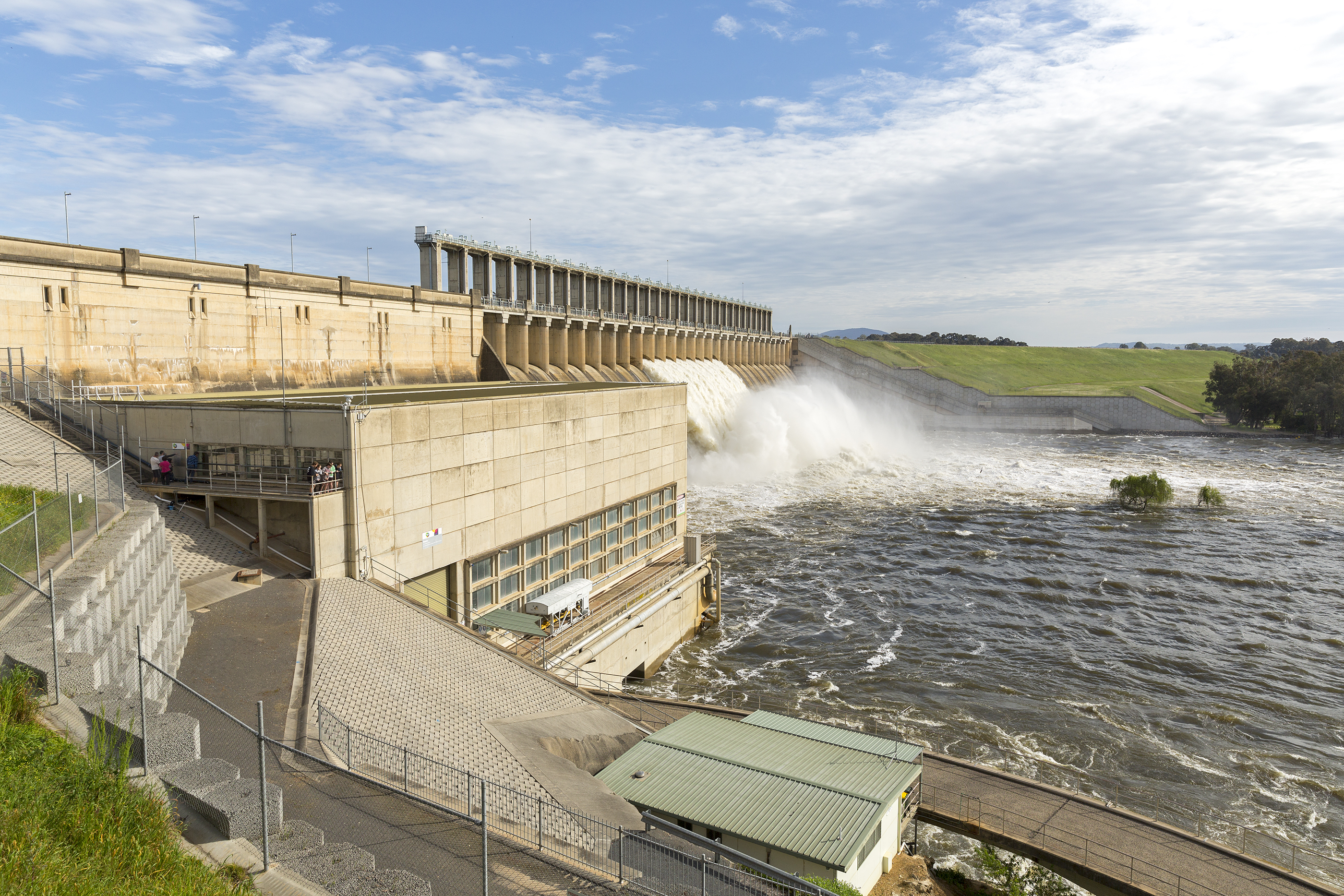 Eight gates open at Hume Dam near Albury